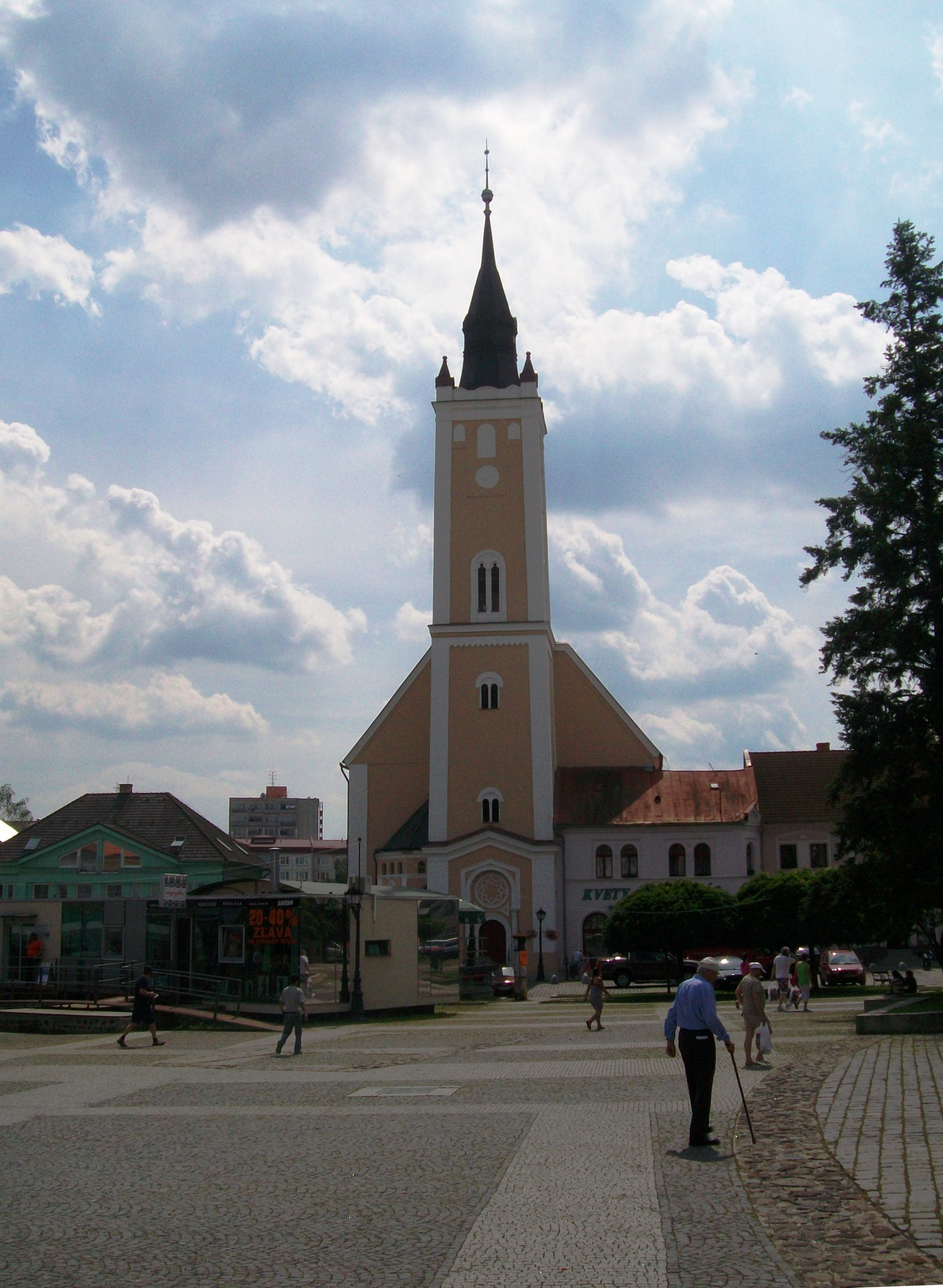 Rimavská Sobota, Reformed Church built in 1784.